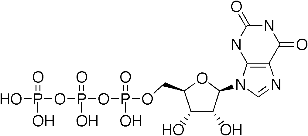 chemical structure of xanthosine triphosphate